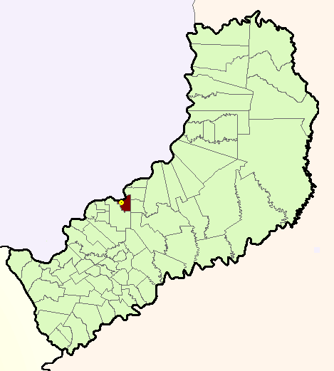 Map showing municipio of Puerto Leoni in Misiones Province, Argentina. Big point marks Puerto Leoni town.